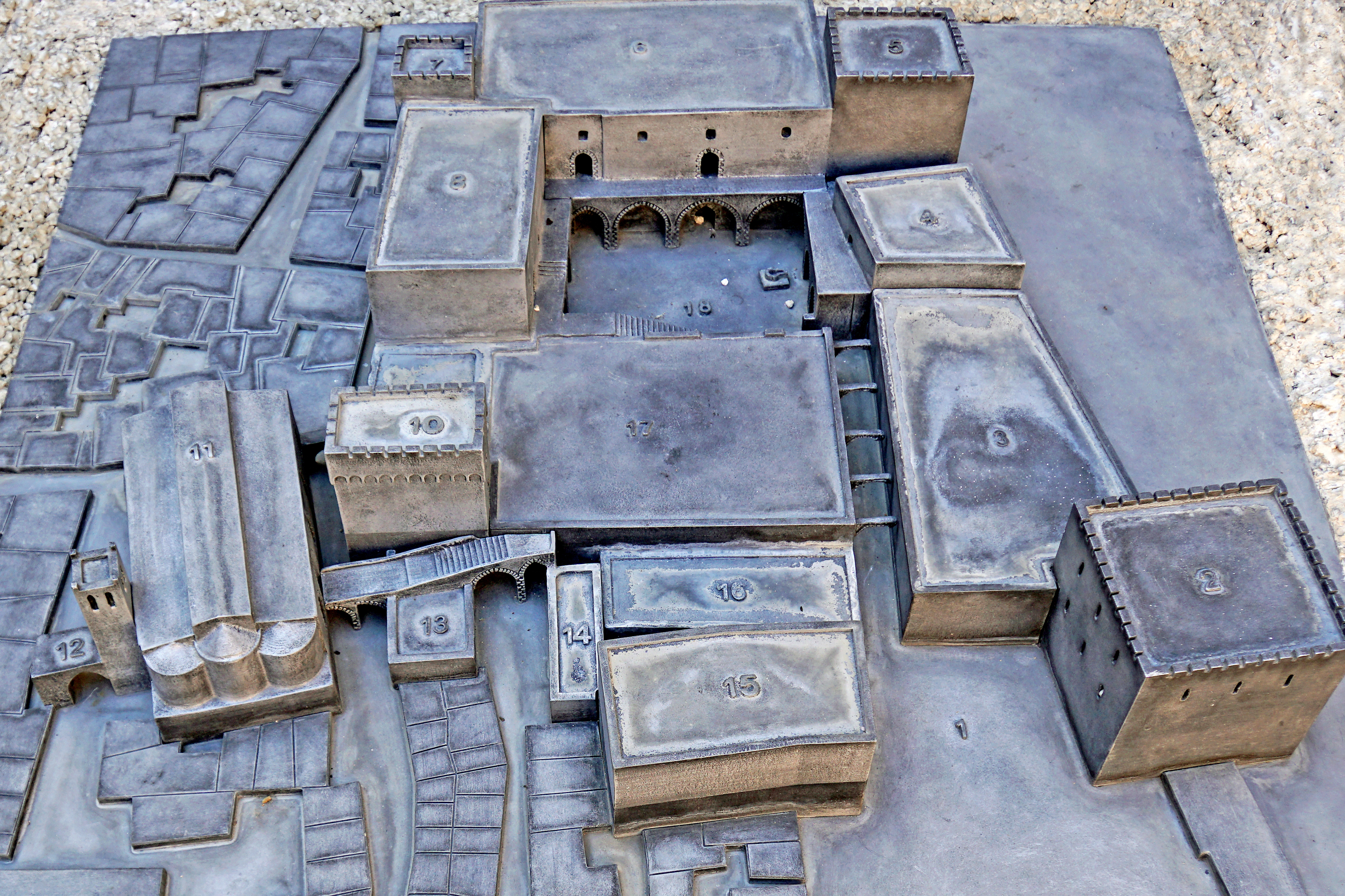 Old Akko (Acre) is an historic walled port-city with continuous settlement from Phoenician period. The remains of the Crusader town, dating from 1104 to 1291, lie almost intact, both above and below today’s street level, providing an exceptional picture of the layout and structures of the capital of the medieval Crusader Kingdom of Jerusalem.PLEASE, NO invitations or self promotions, THEY WILL BE DELETED. My photos are FREE to use, just give me credit and it would be nice if you let me know, thanks.